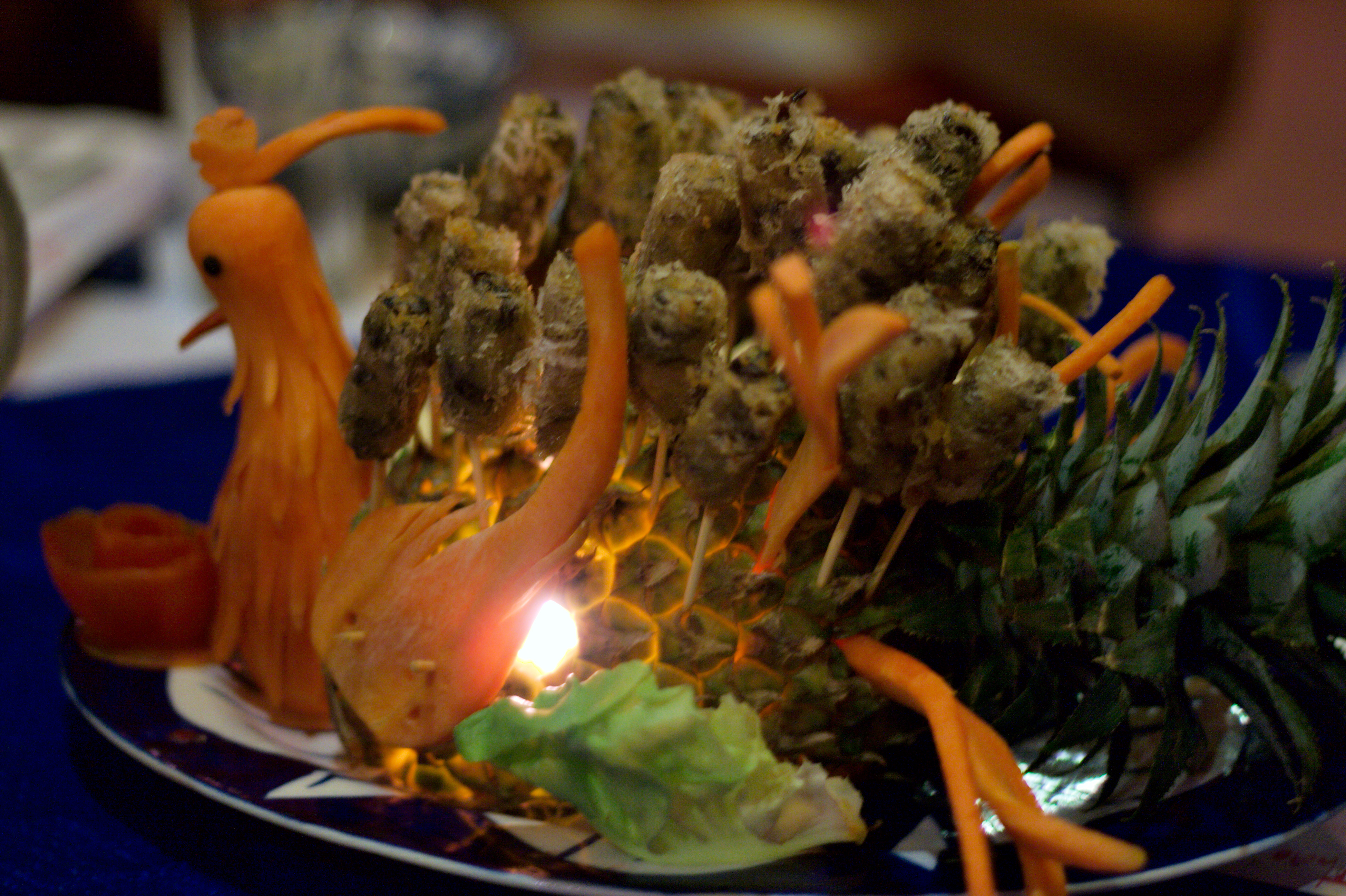 Vietnamese spring rolls served in Imperial Vietnamese cuisine way in the city of Hue.